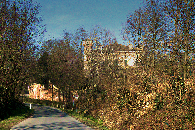 Villa Albergoni in Moscazzano (Province of Cremona)